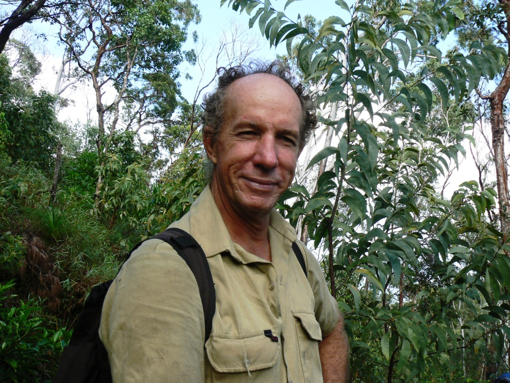 Portrait of Lewis Roberts, naturalist and botanical illustrator